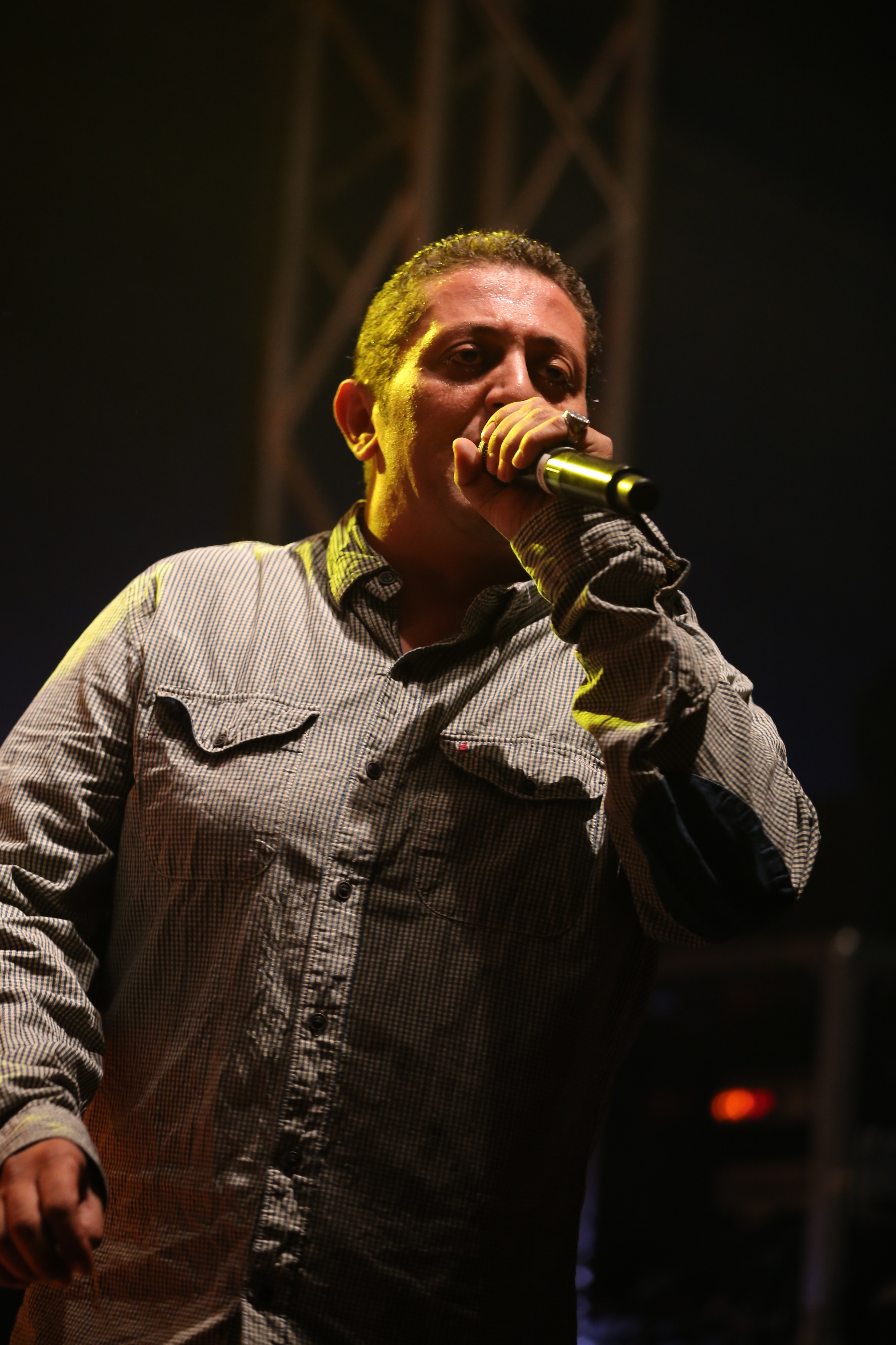 Dub Incorporation at Chiemsee Reggae Summer Festival 2013.